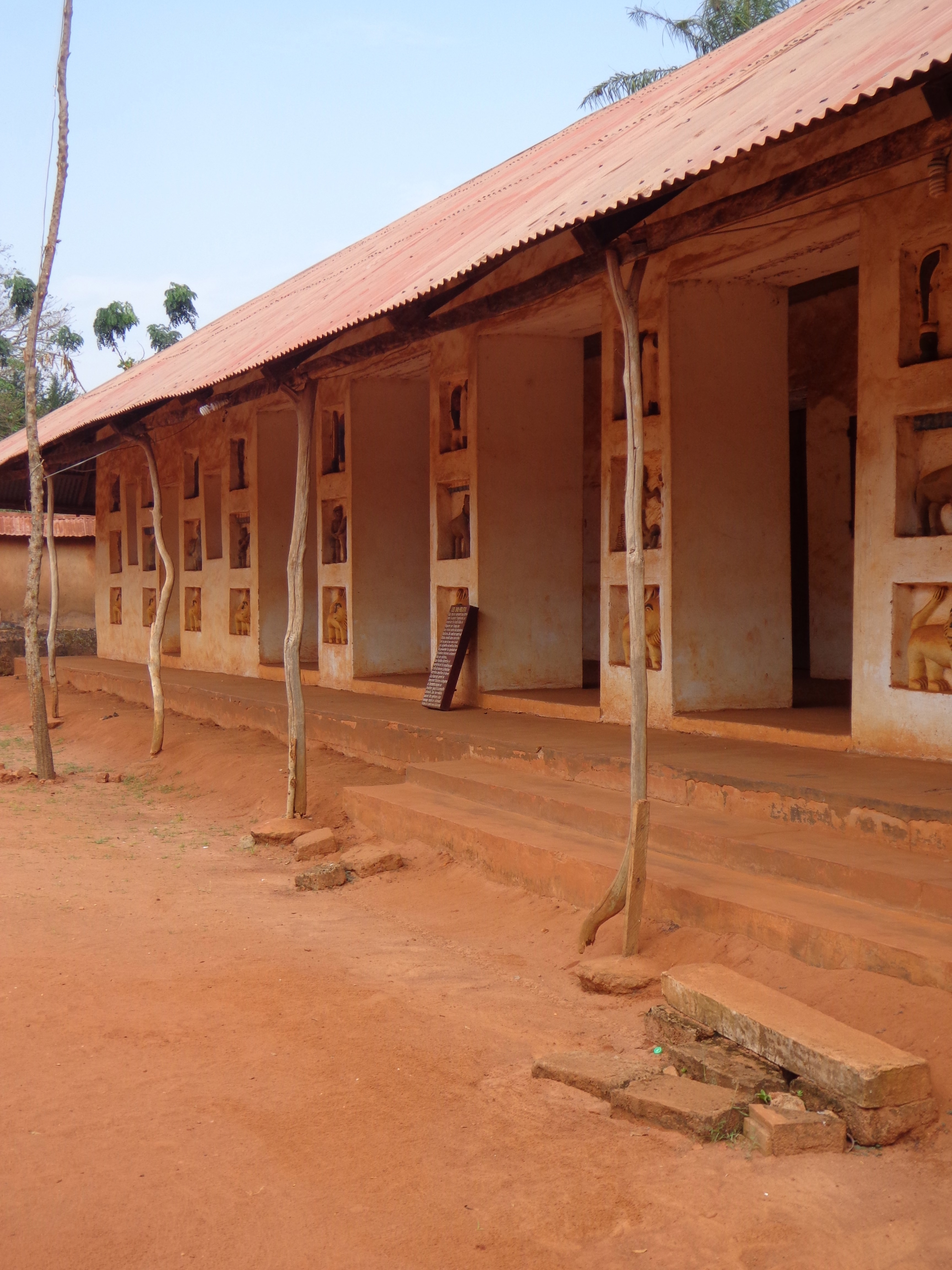 Royal Palaces of Abomey